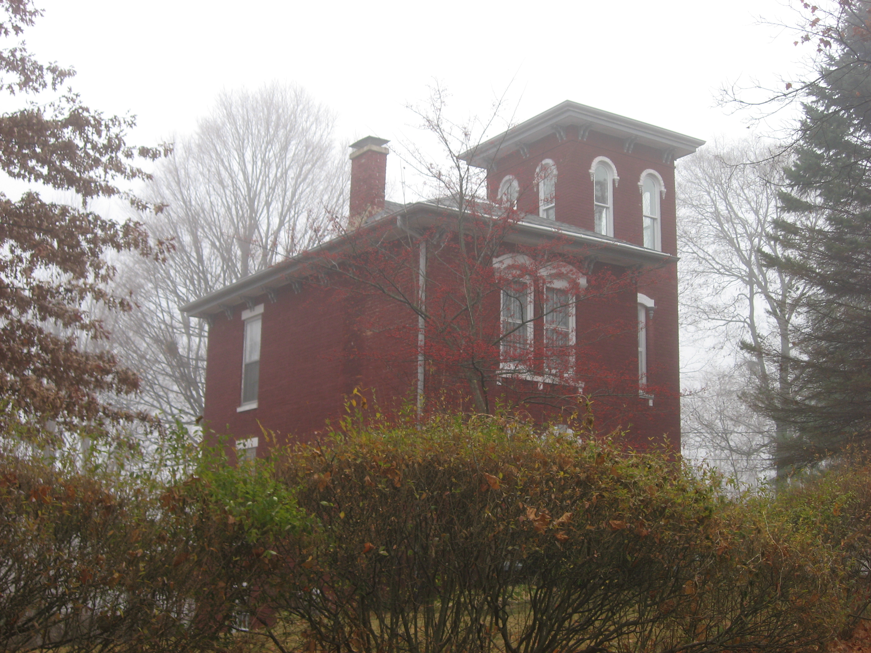 Front of the McClelland-Layne House, located at 602 Cherry Street in Crawfordsville, Indiana, United States. Built in 1869, it is listed on the National Register of Historic Places.